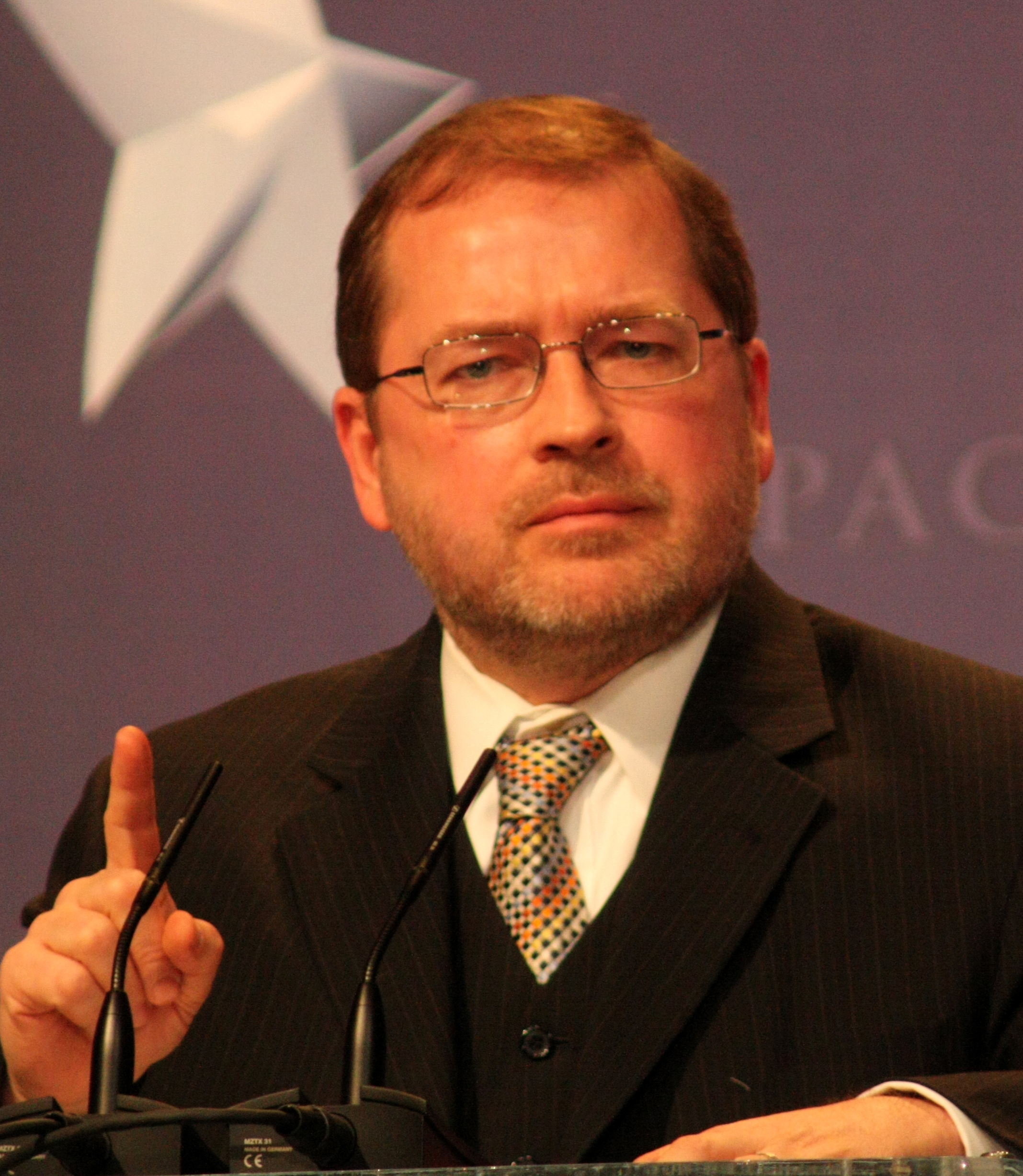 Grover Norquist at CPAC in Washington, D.C..